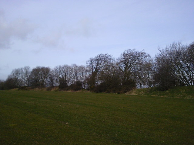 Enclosure, Belpere, Co Meath This earthwork in otherwise flat level countryside is a henge, or banked enclosure, A nearby one at Lismullen has been dated at approximately 2000BC.